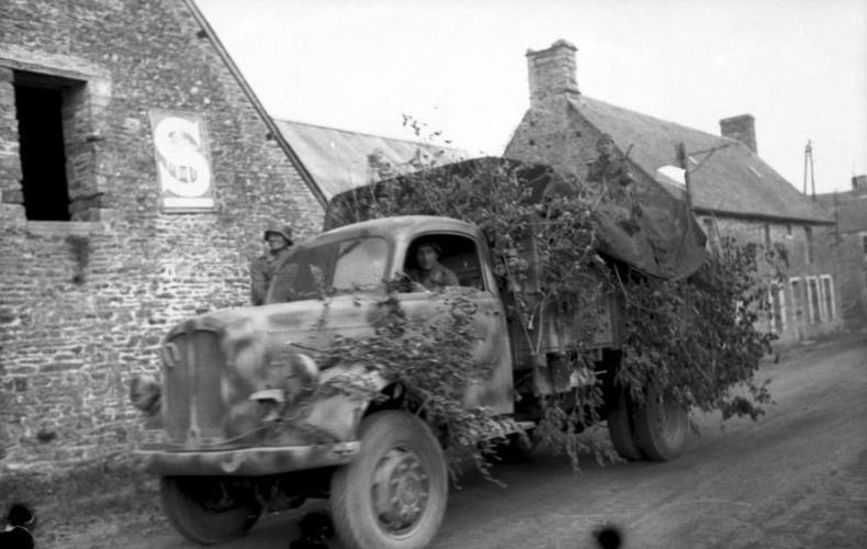 Probably Borgward B3000 truck